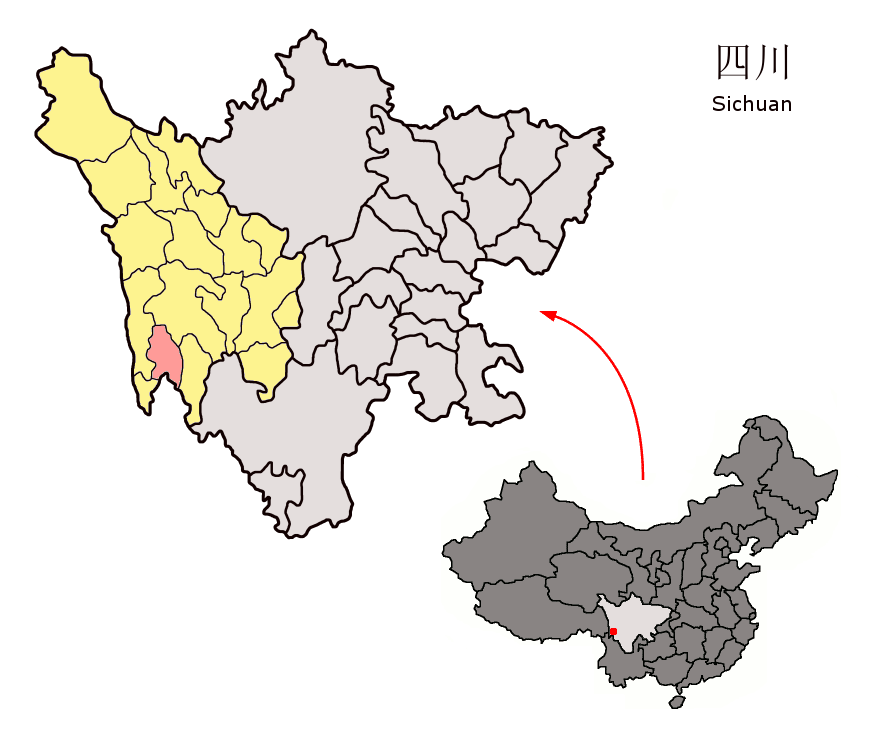 Location of Xiangcheng County (pink) and Garzê Prefecture (yellow) within Sichuan province of China Map drawn in september 2007 using various sources, mainly : Sichuan province administrative regions GIS data: 1:1M, County level, 1990 Sichuan Counties map from